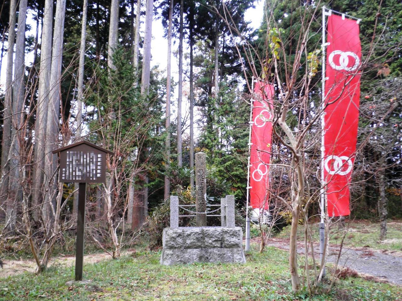 Site of Wakisaka Yasuharu's position in the Battle of Sekigahara.